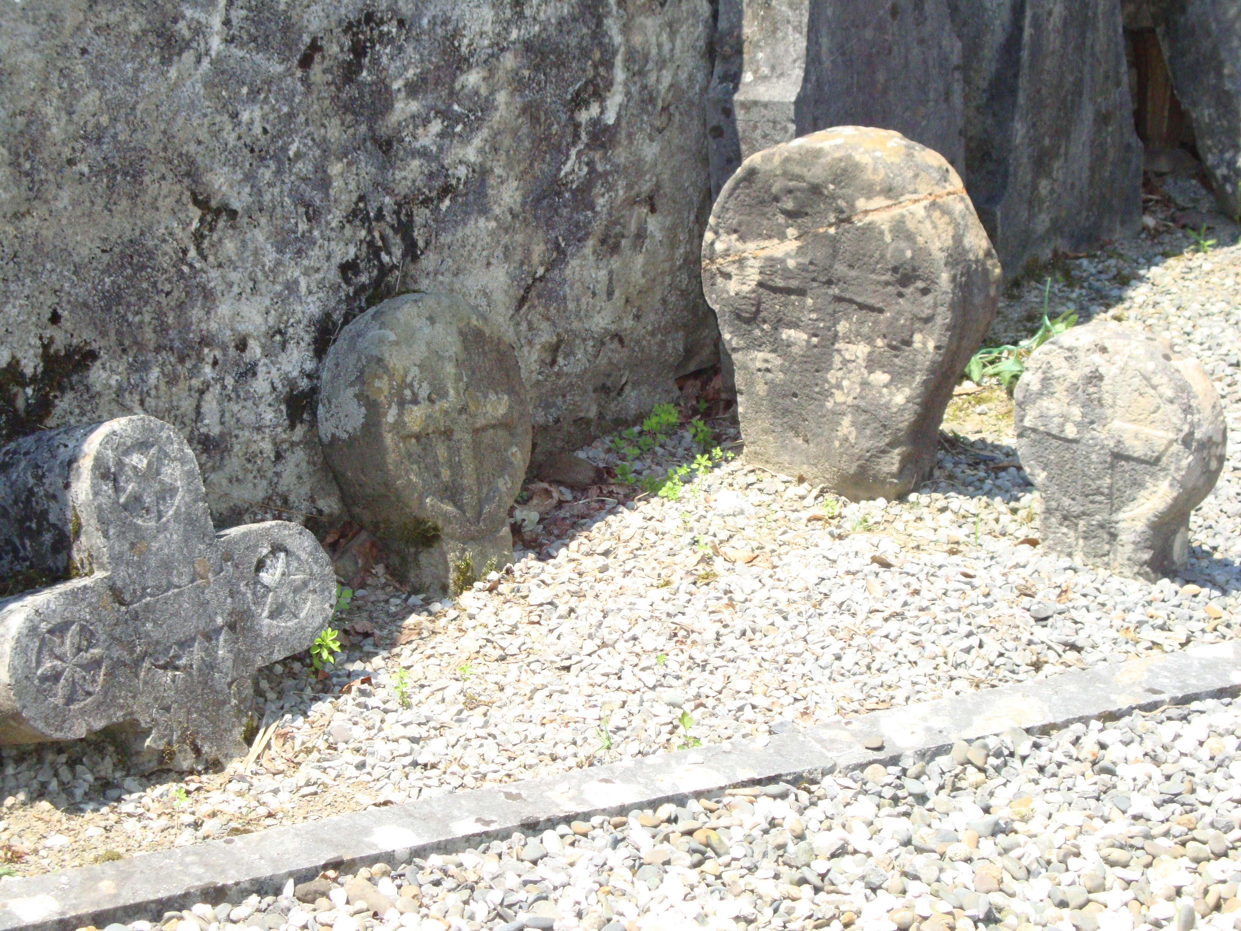 Athéry (Licq-Athéry, Pyr-Atl, Fr) old basque steles